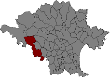 Location of Cabanelles in Alt Empordà